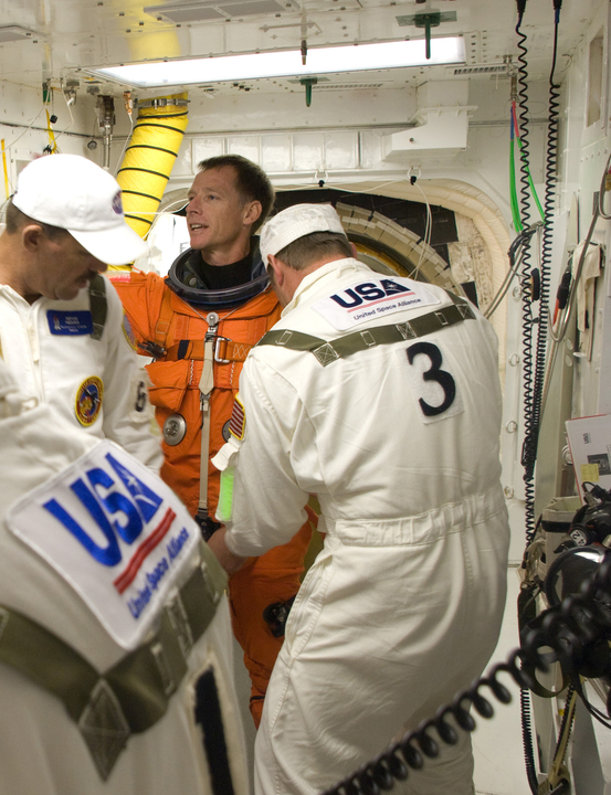 In the White Room on Launch Pad 39A at NASA's Kennedy Space Center in Florida, STS-126 Commander Chris Ferguson is helped by suit technicians to put on a harness over his launch and entry suit. In the background is the hatch for entry into space shuttle Endeavour.